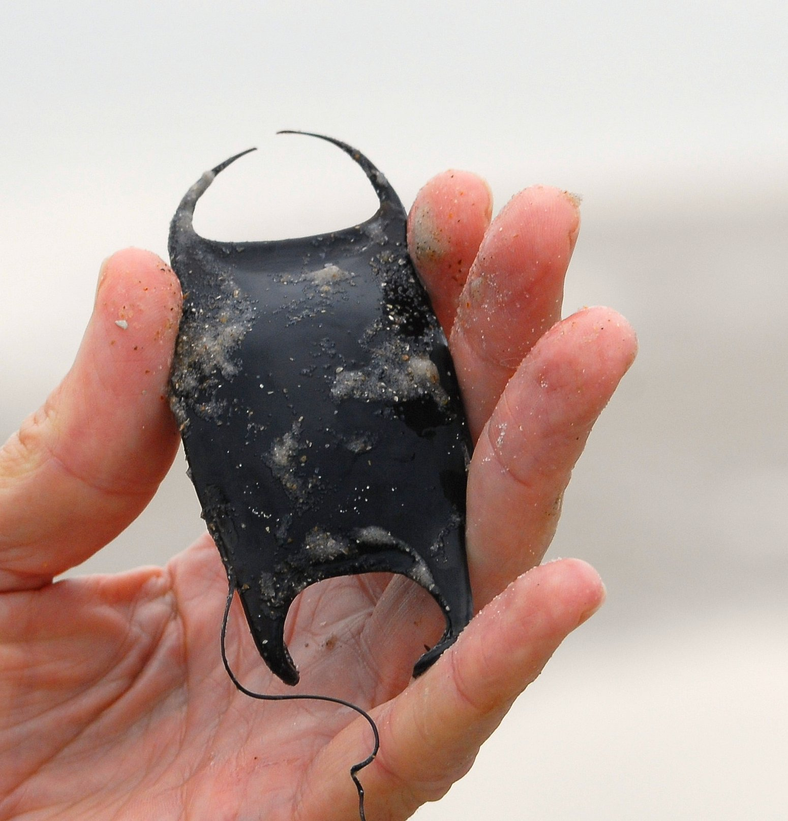 Still *alive* we left this in the water at Smyrna Dunes Park. © Andrea Westmoreland